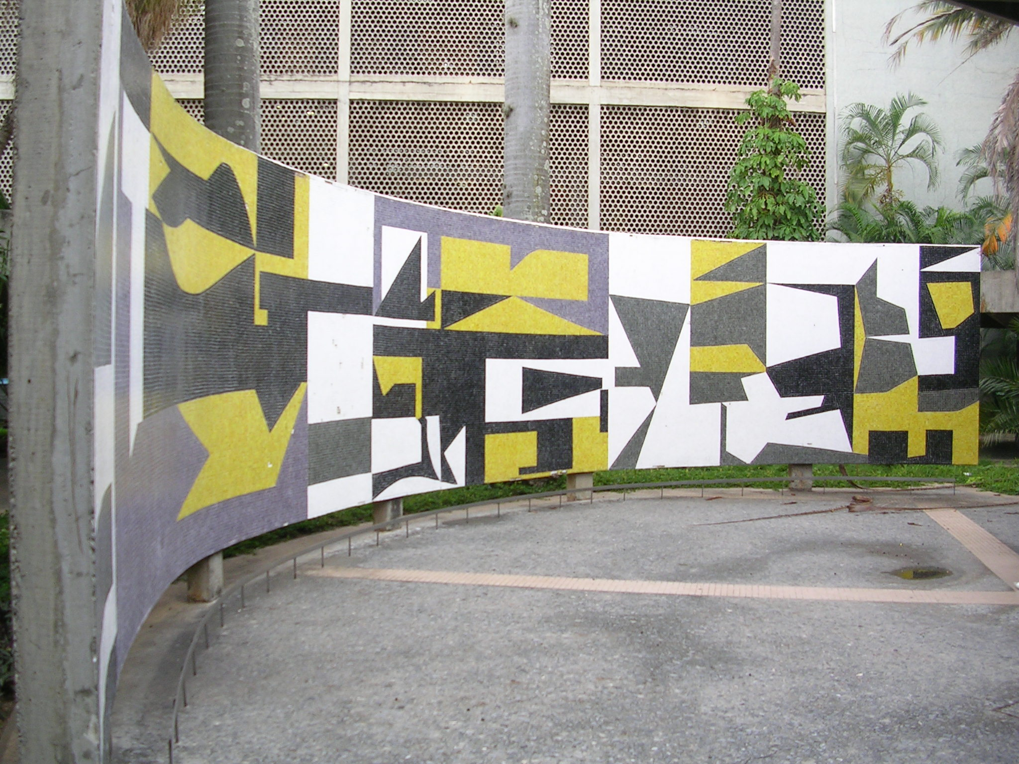 Mural by Pascual Navarro, Central University of Venezuela. Modern movement art & architecture in Venezuela.